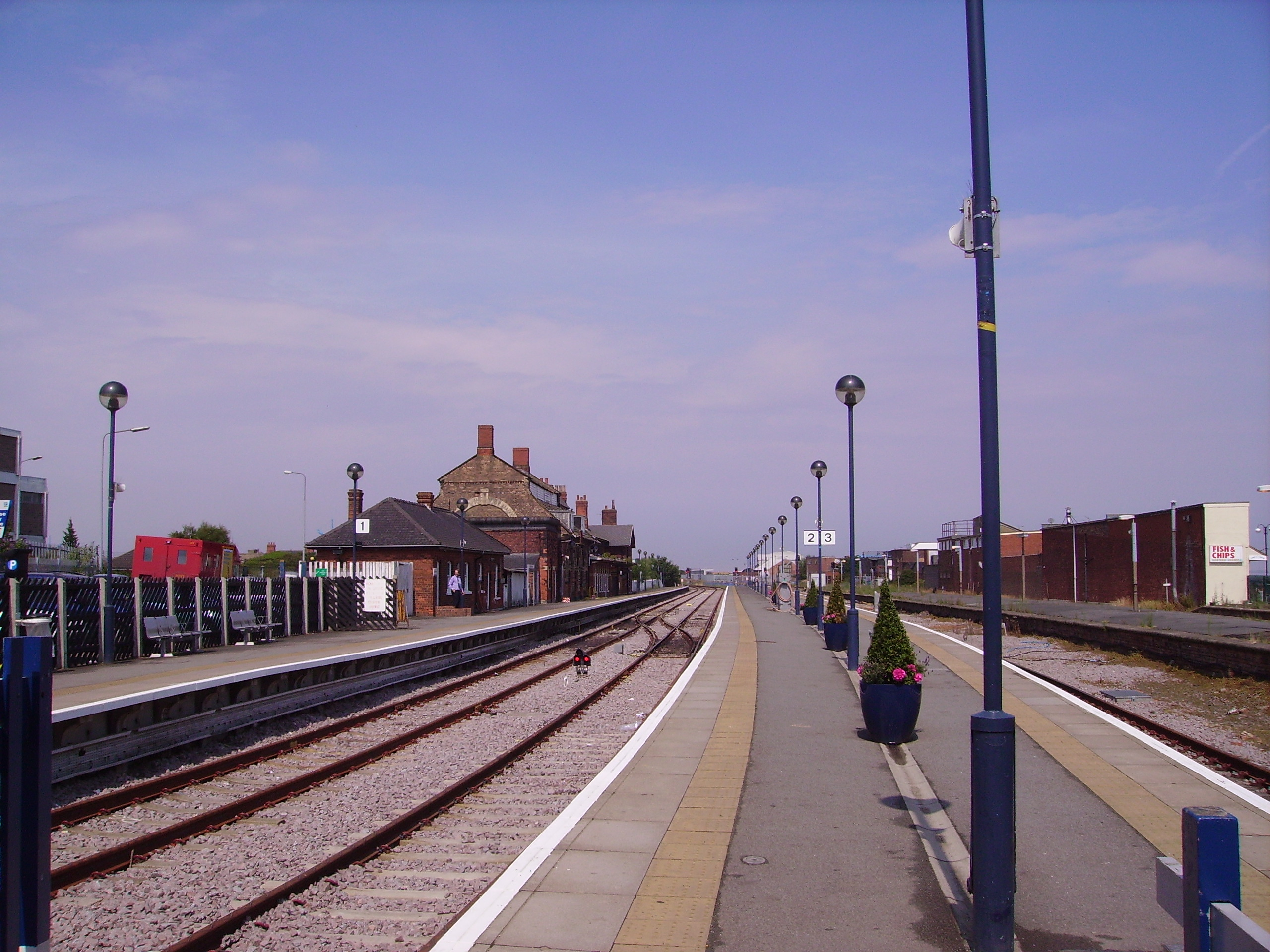 railway station of Cleethorpes, United Kingdom